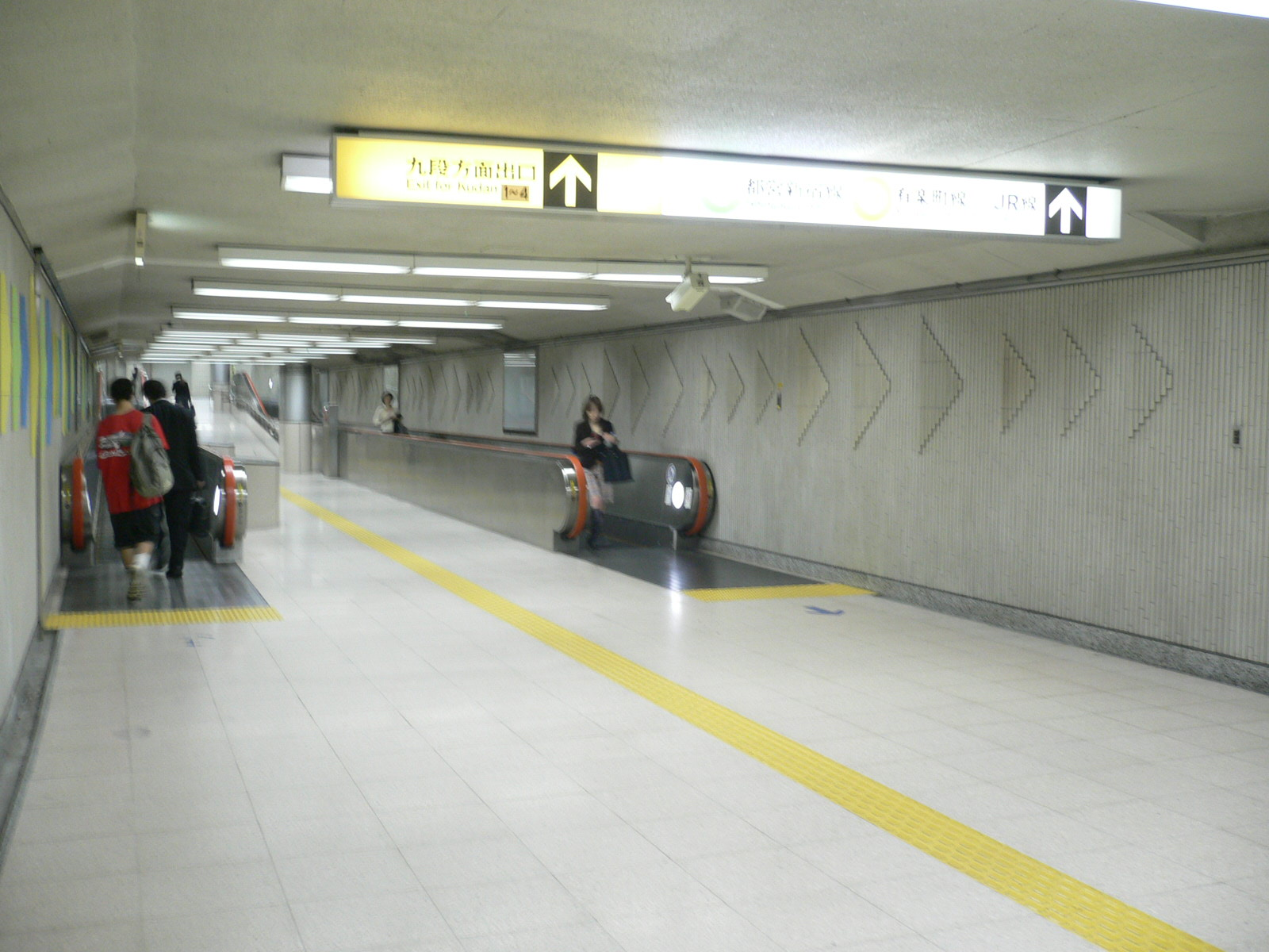 Ichigaya Station (市ケ谷駅), Chiyoda W, Tokyo M.